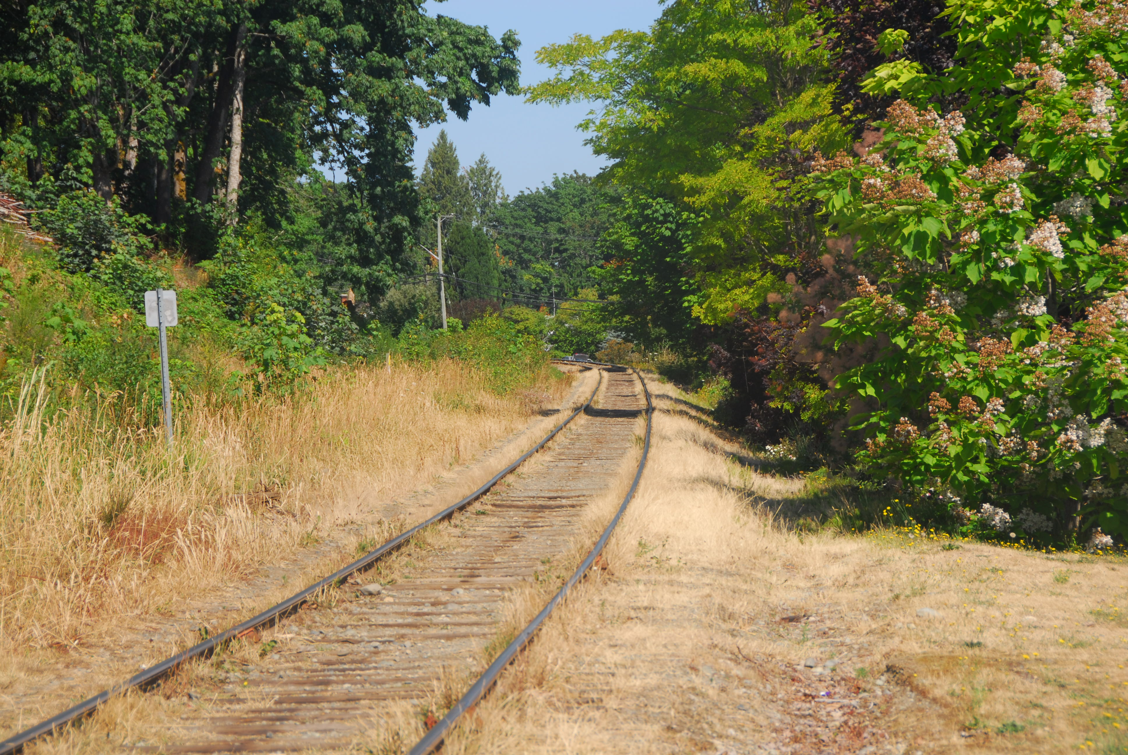 The Southern Railway of Vancouver Island running through Chemainus, British Columbia, Canada.